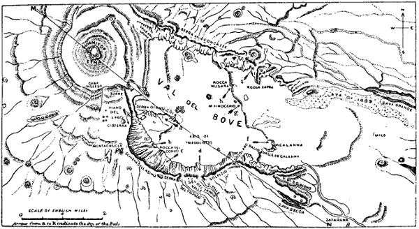 Map of the Val del Bove, to illustrate the theory of a double axis of eruption, 1878